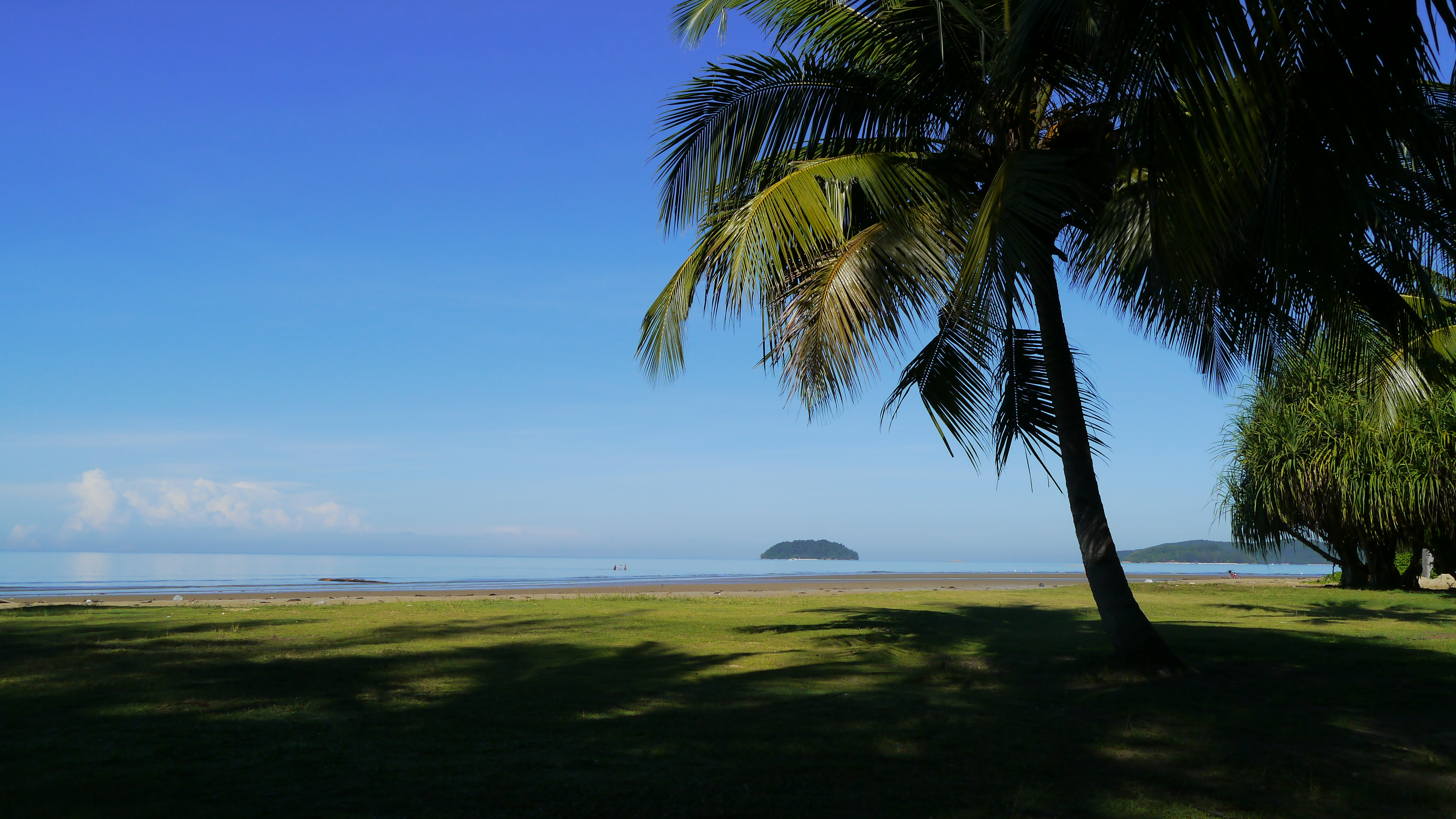 Sapi Island seen from Kota Kinabalu beach. Sabah, Malaysia.